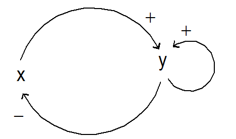 Generalised Kinetic Logic Example